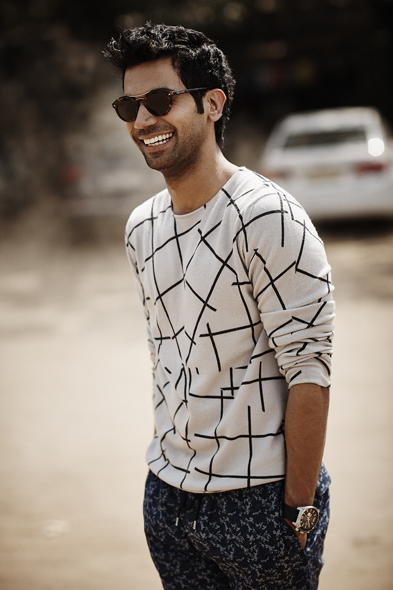 At a Hockey Match